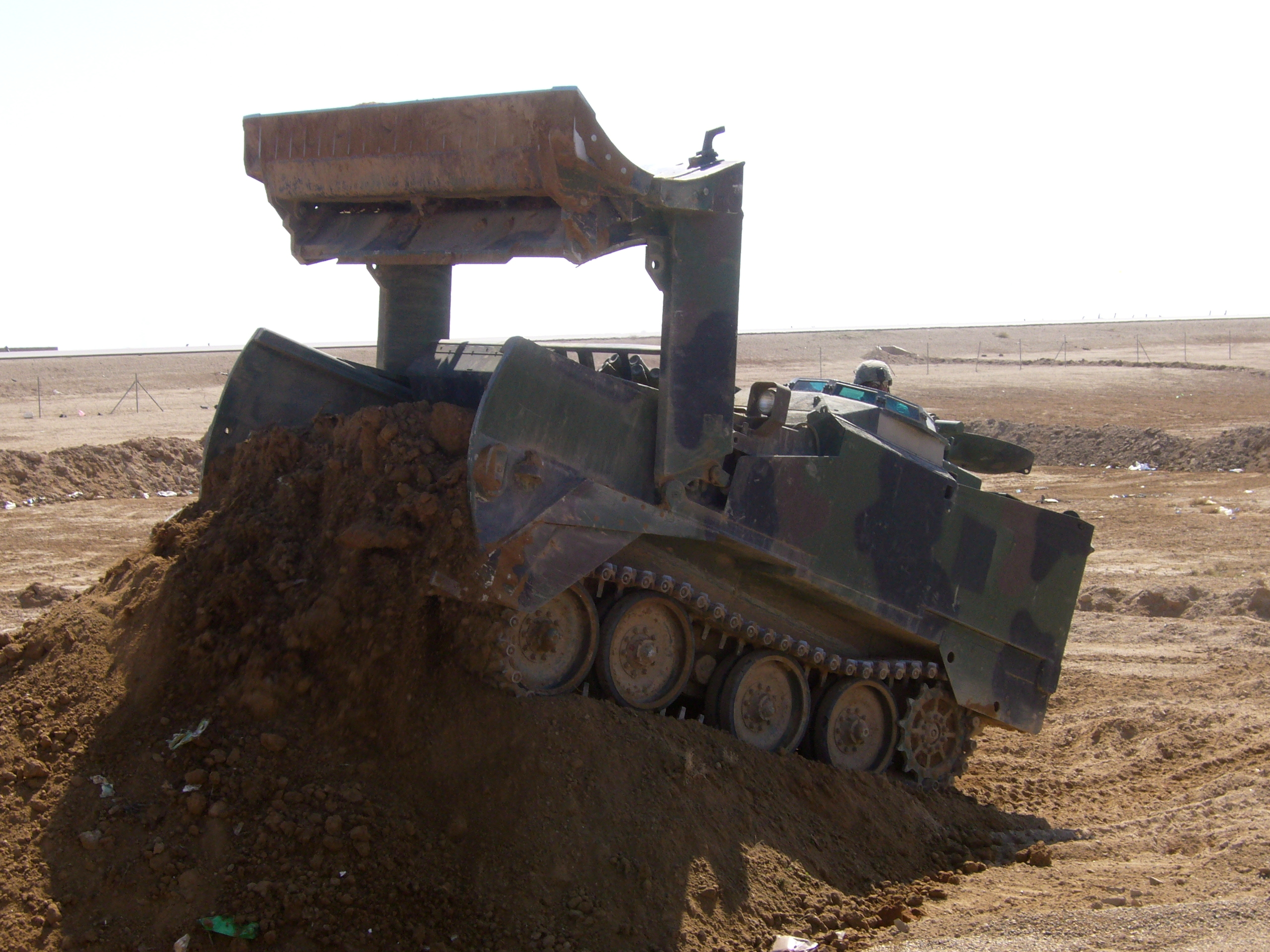 taken by Andy Patton 3mar07